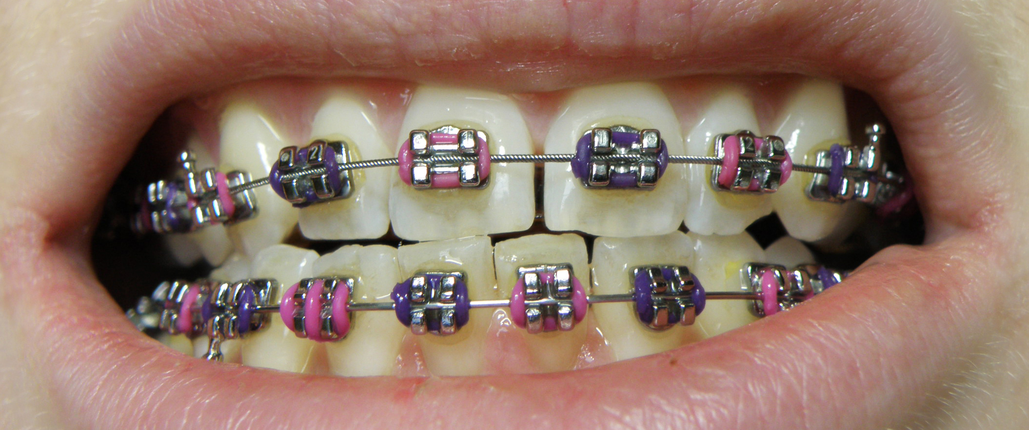 Dental braces on lower and upper jaw.